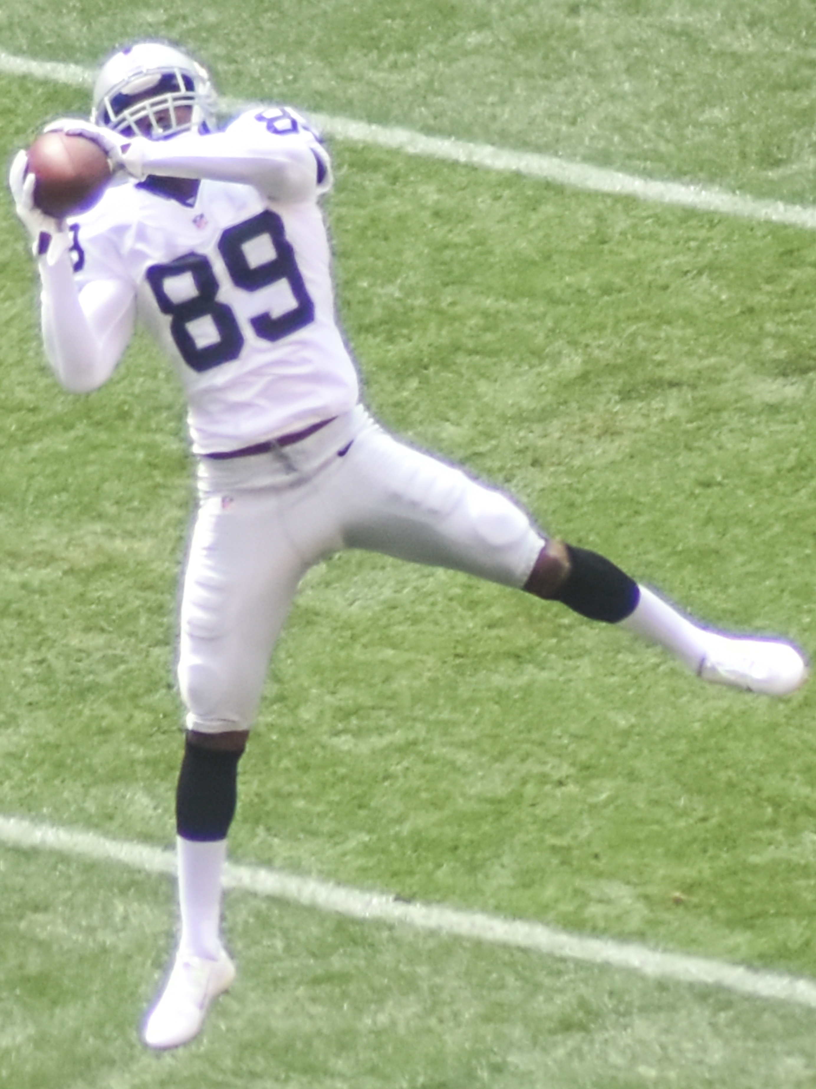 Raiders at Browns